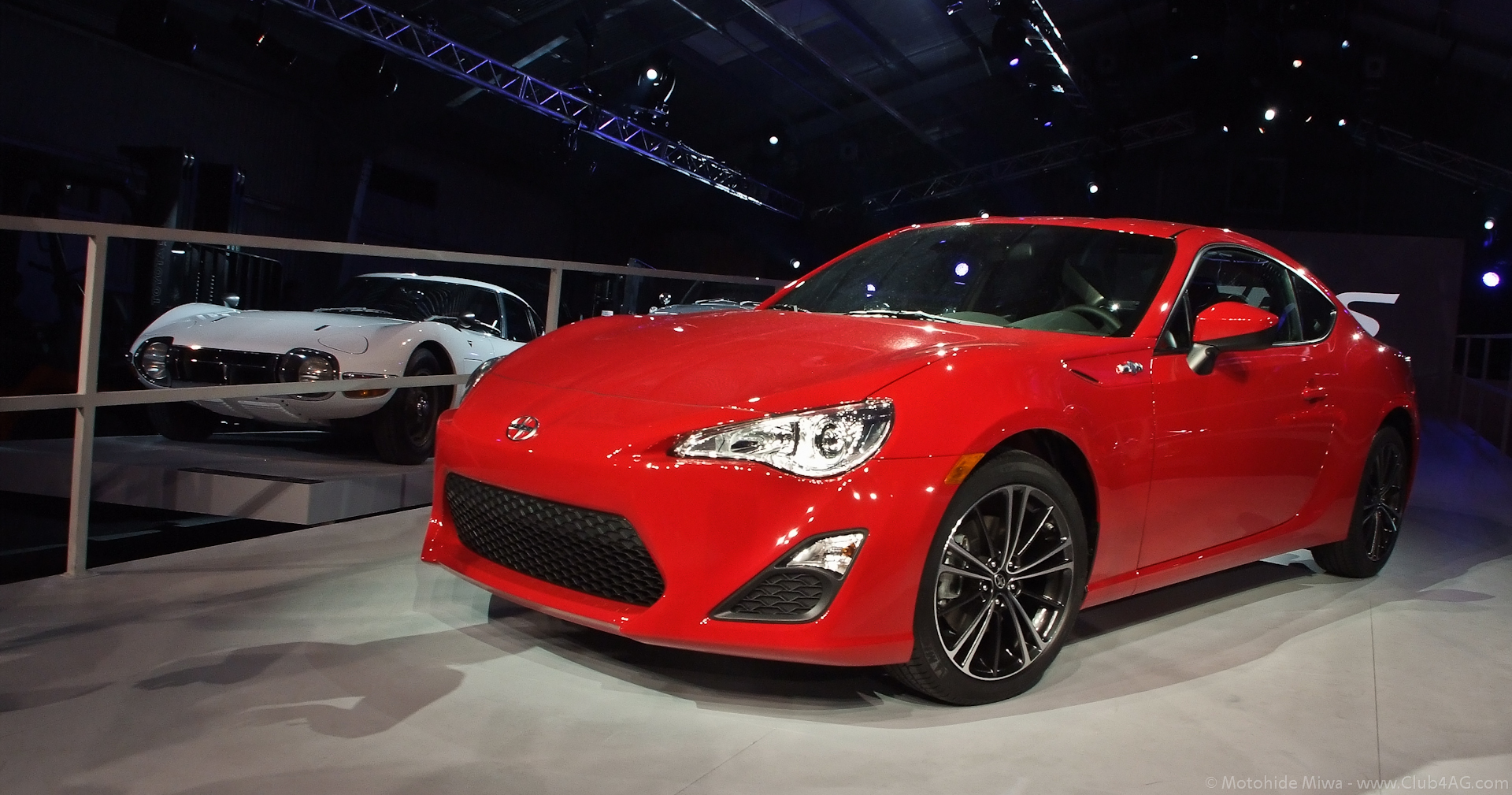 2011_11_30_Scion_FRS_Preview_Event-20-47